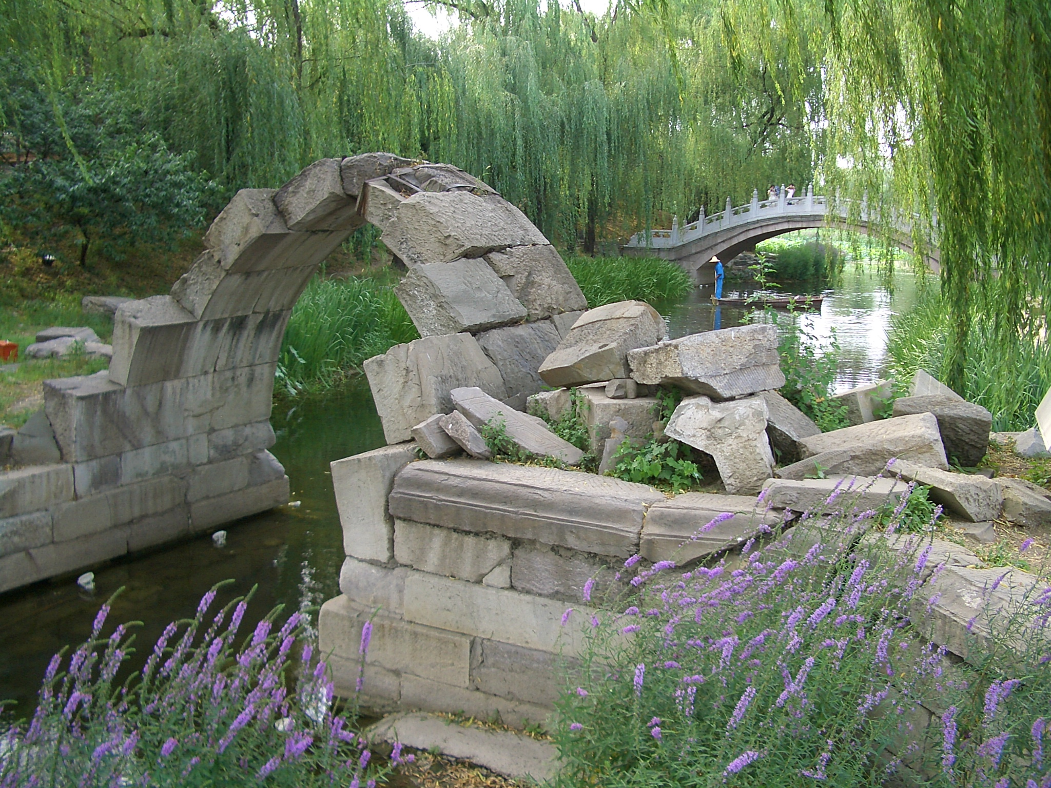 A ruined bridge in the southern part of Yunamingyuan (Old Summer Palace) ruin site, near the south entrance.